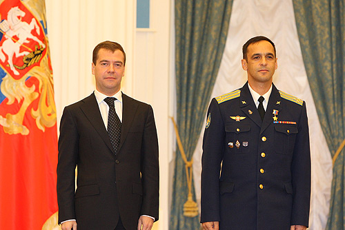 THE KREMLIN, MOSCOW. Ceremony presenting state decorations. Test pilot Oleg Mutovin received the title Hero of Russia.